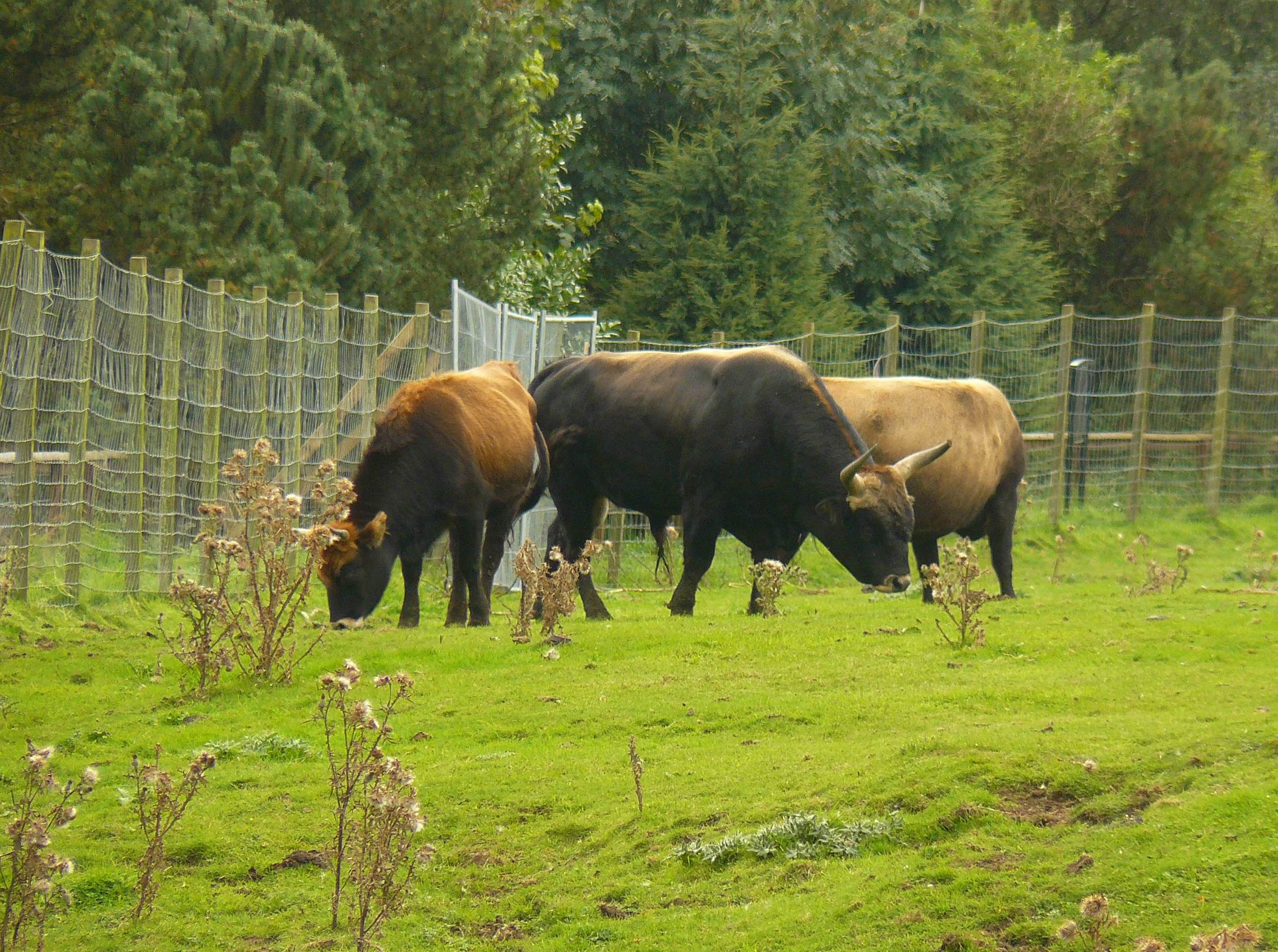 Heck cattle at Edinburgh Zoo